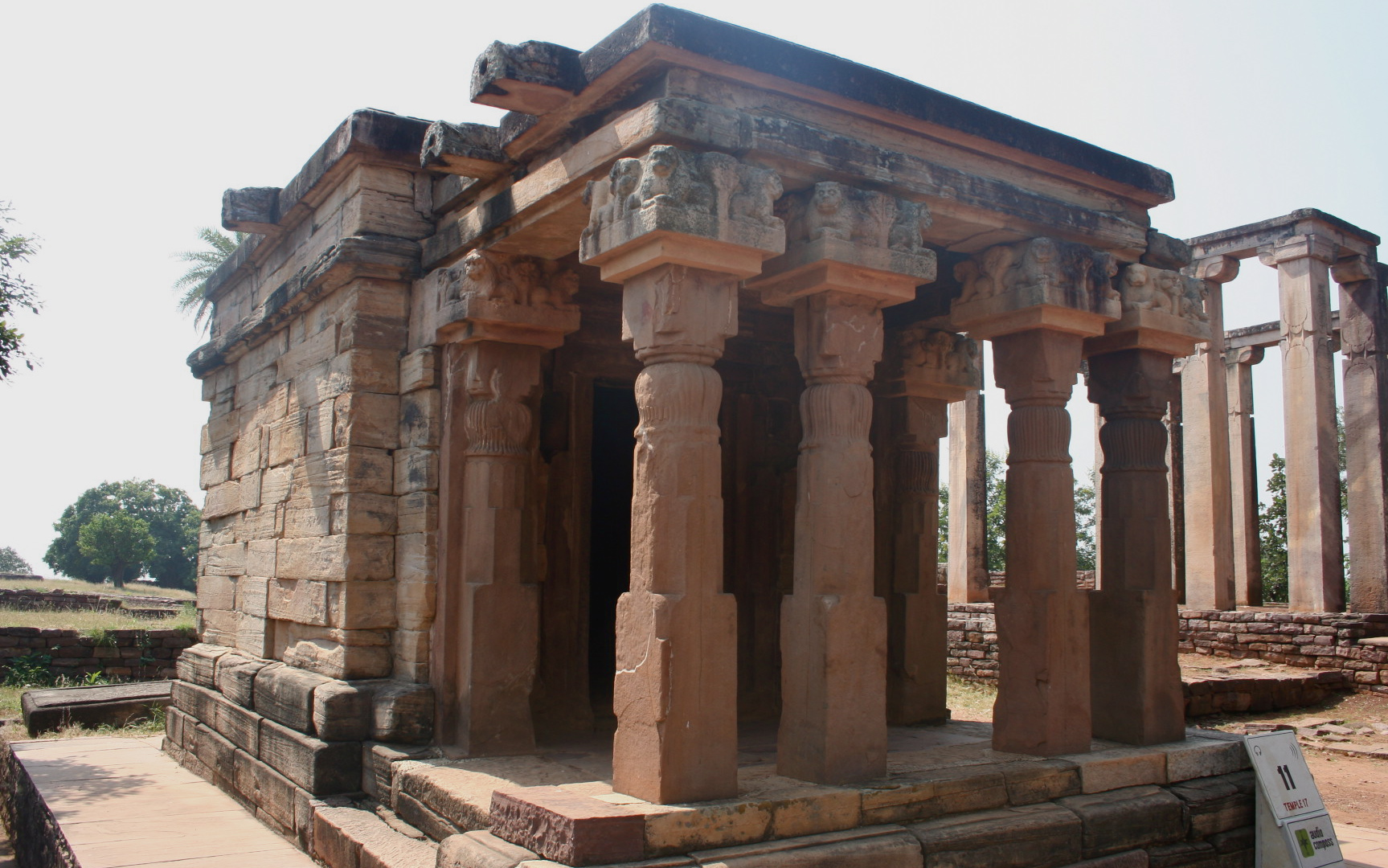 Gupta period temple with the apsidal hall with Mauryan foundation